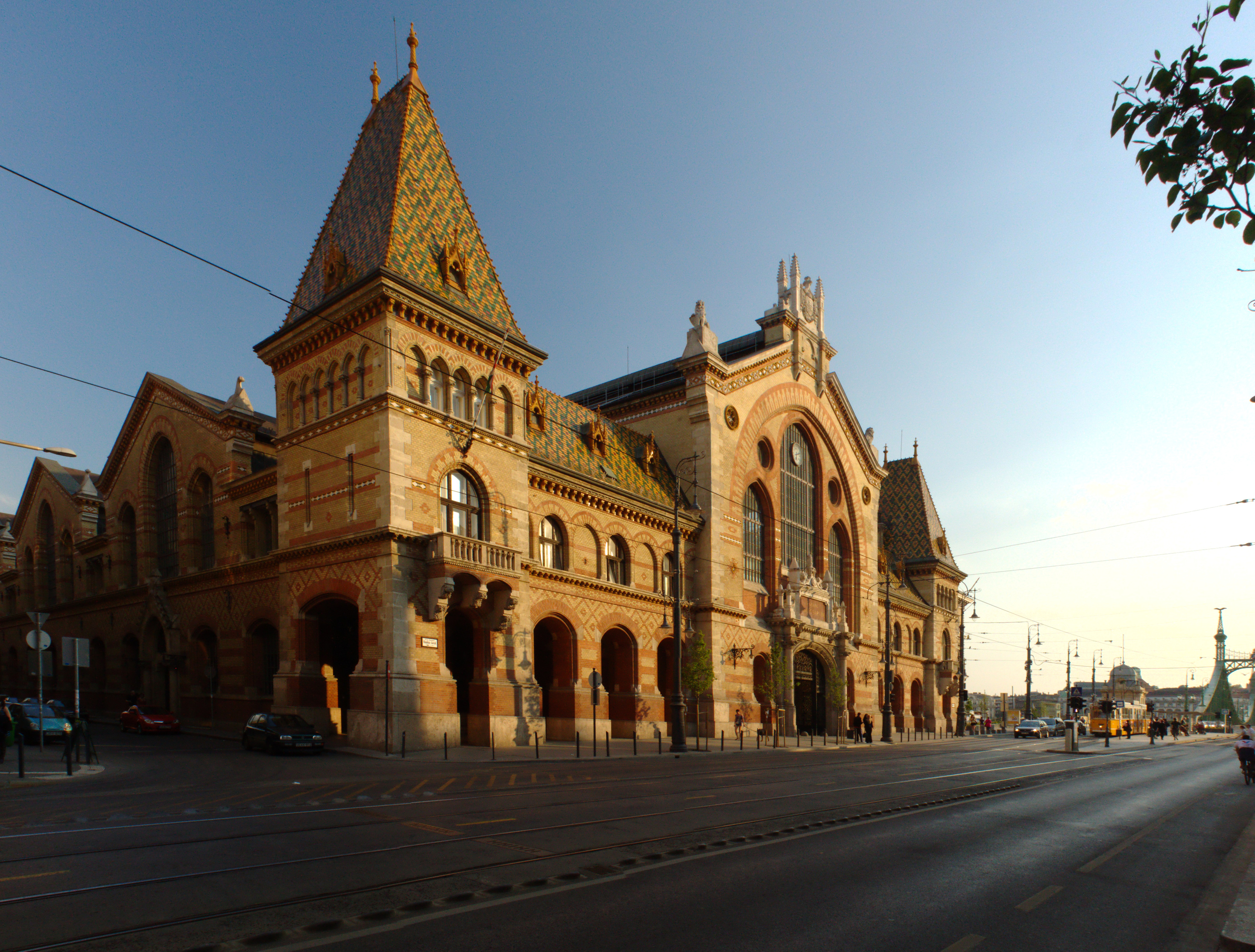 Grand Market Hall on Fővám tér square in Budapest, Hungary